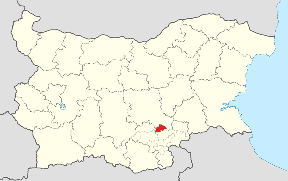 Location map of Simeonovgrad Municipality within Bulgaria and Haskovo Province